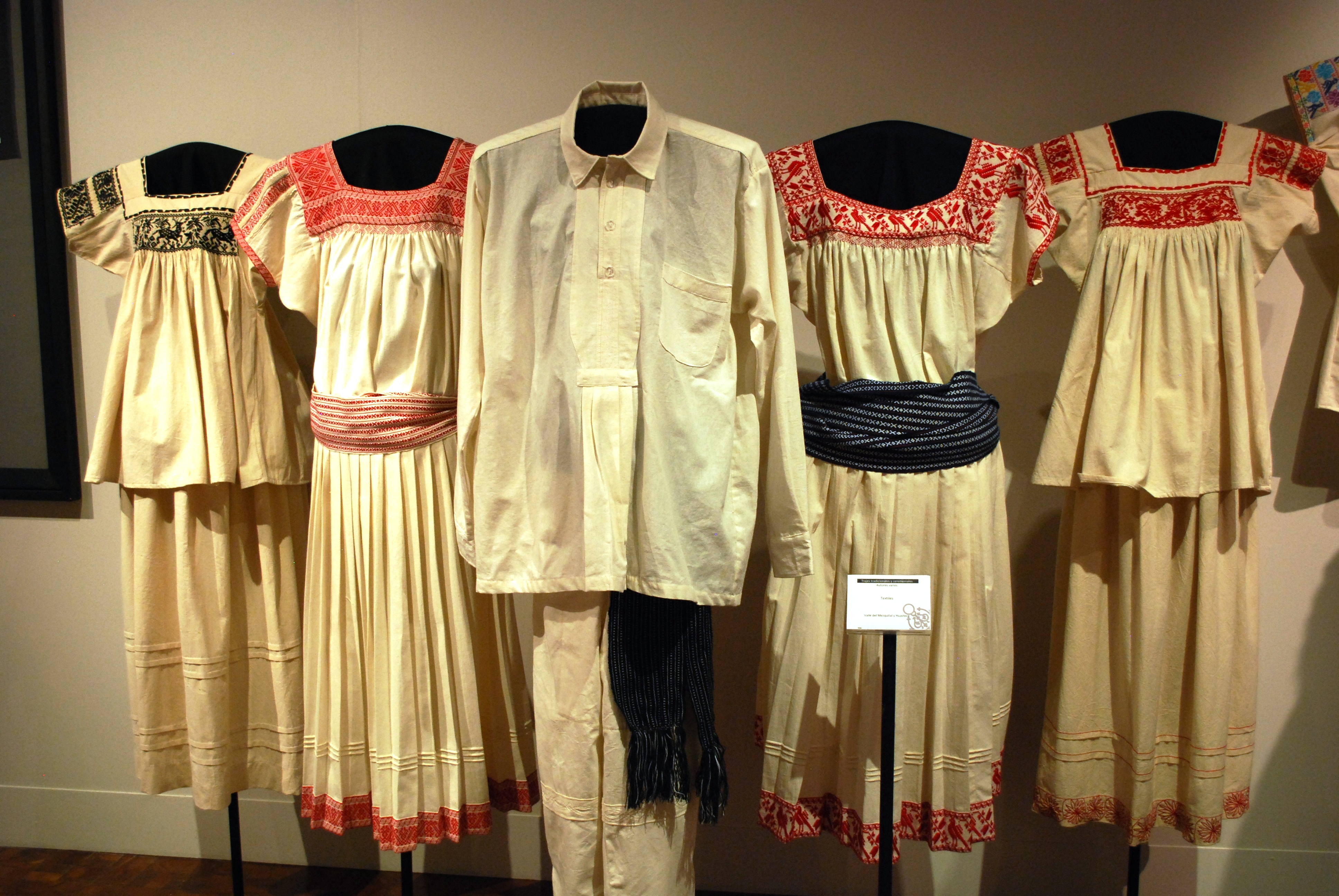 Display of traditional clothing from the Mezquital Valley and Huasteca as part of a temporary exhibit dedicated to Hidalgo at the Museo de Arte Popular, Mexico City